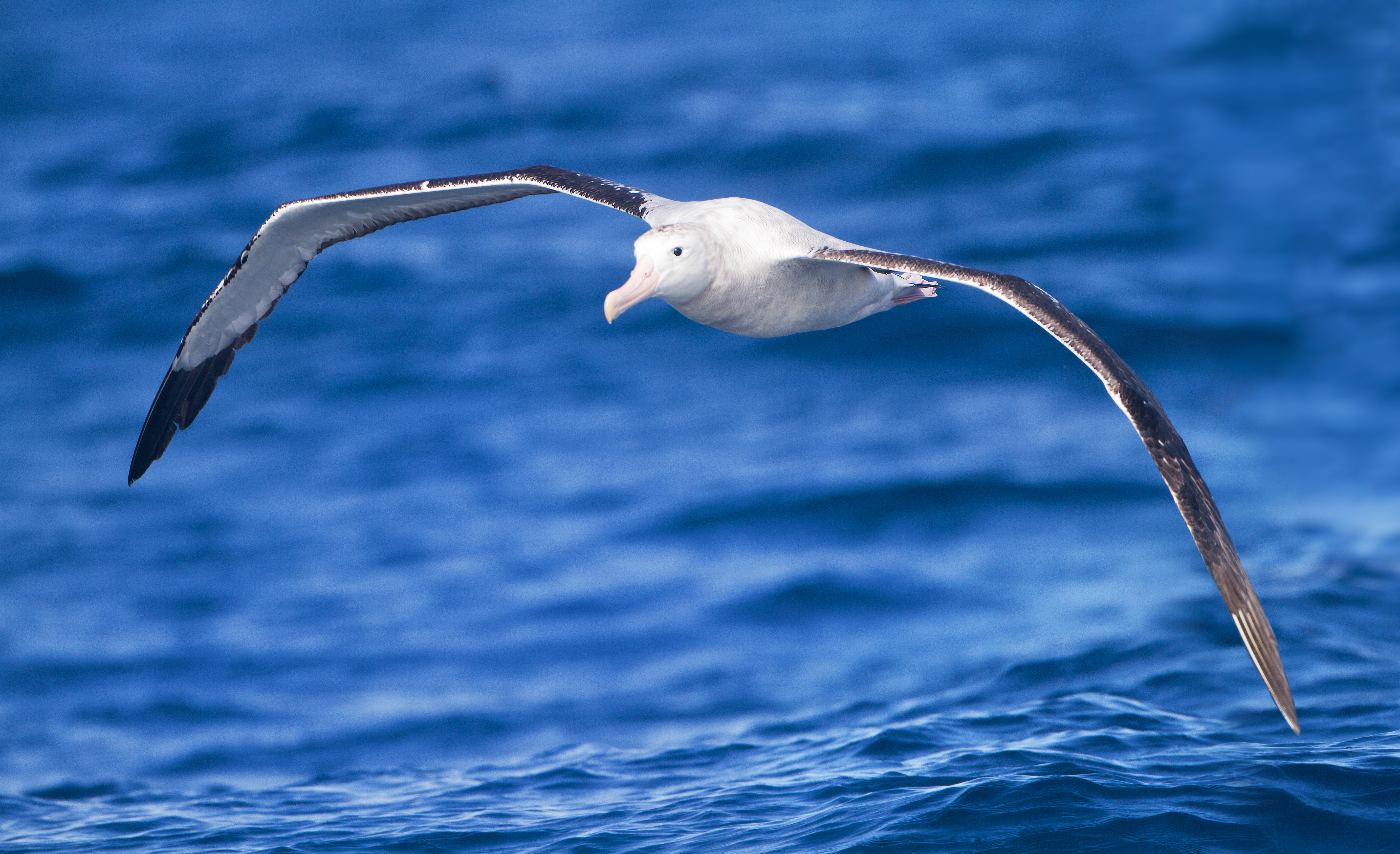 Wandering Albatross (Diomedea exulans) in flight, East of the Tasman Peninsula, Tasmania, Australia.